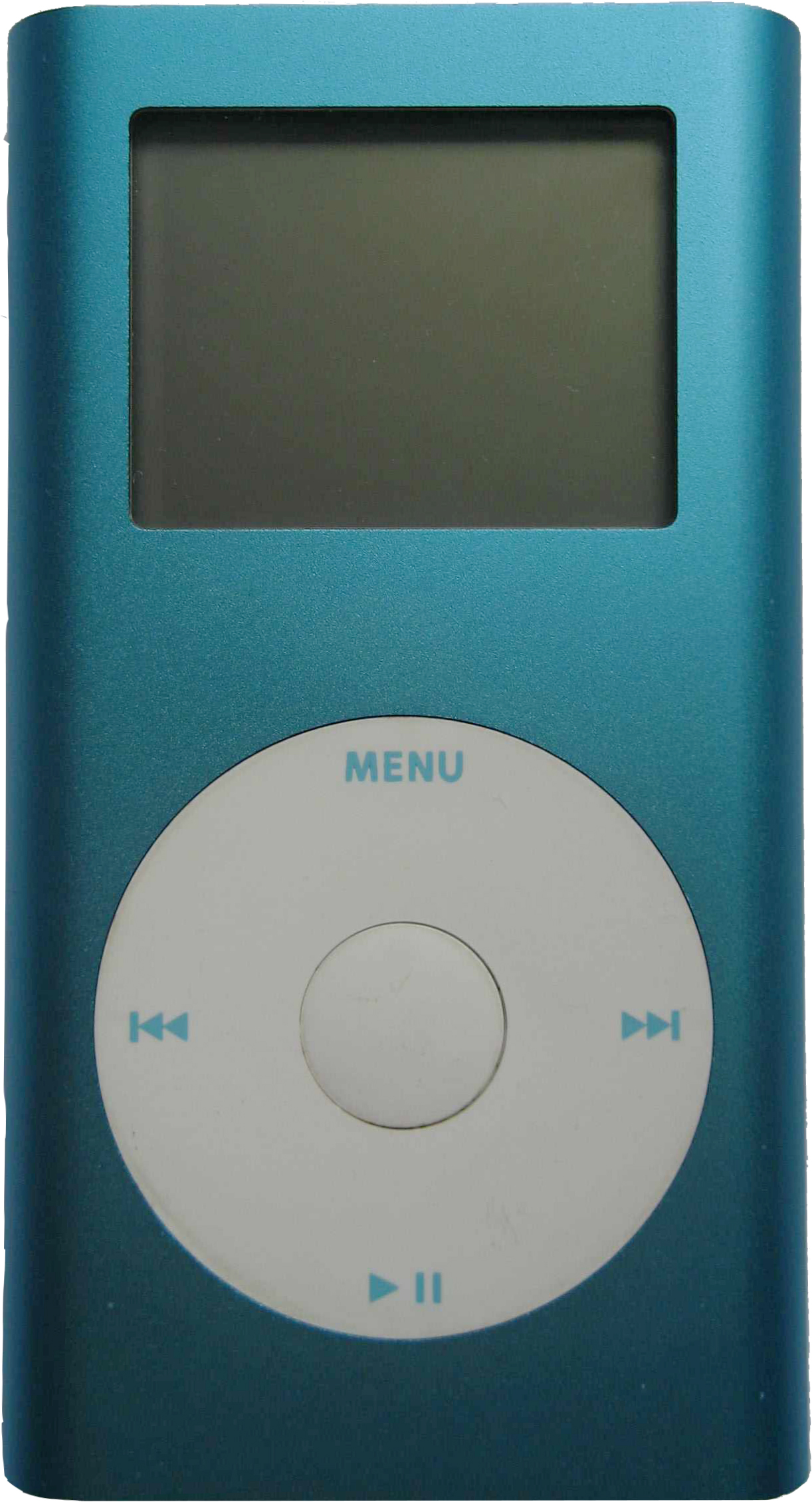 This is the front of my iPod mini 2G